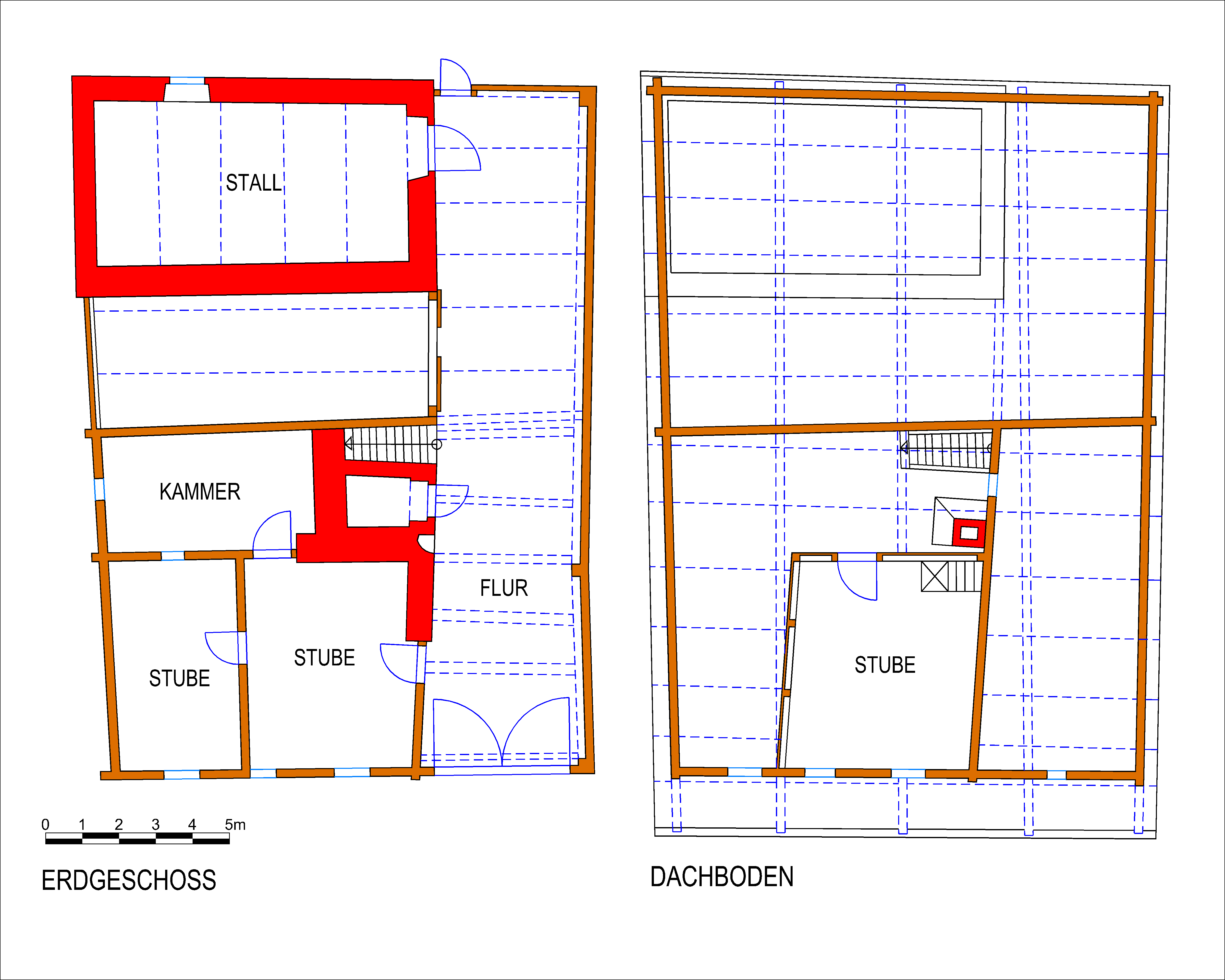 Volary, house No. 50, floorplans. Legend: red: stone masonry, brown: timbered walls. original image: Václav Mencl: Lidová architektura v Československu. Praha: Academia, 1980, p. 500, image no. 1245. description in German